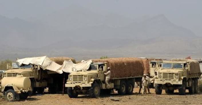 Saudi Army have three M923 5-ton Cargo Trucks in Jizan, Saudi Arabia.